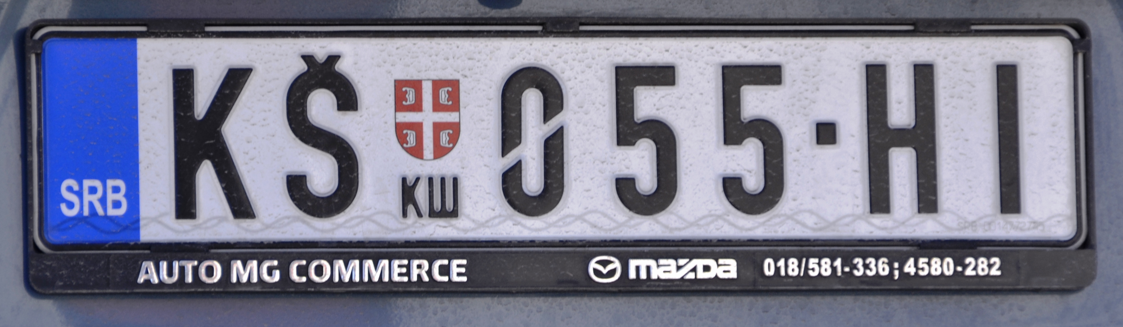 License plate of Serbia.